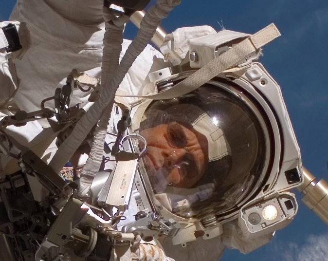 Head of European Space Agency (ESA) astronaut Christer Fuglesang, STS-116 mission specialist. Fuglesang participates in the mission's second of three planned sessions of extravehicular activity (EVA) as construction resumes on the International Space Station. Astronaut Robert L. Curbeam, Jr. (out of frame), mission specialist, also participated in the spacewalk. STS-116 Shuttle Mission Imagery